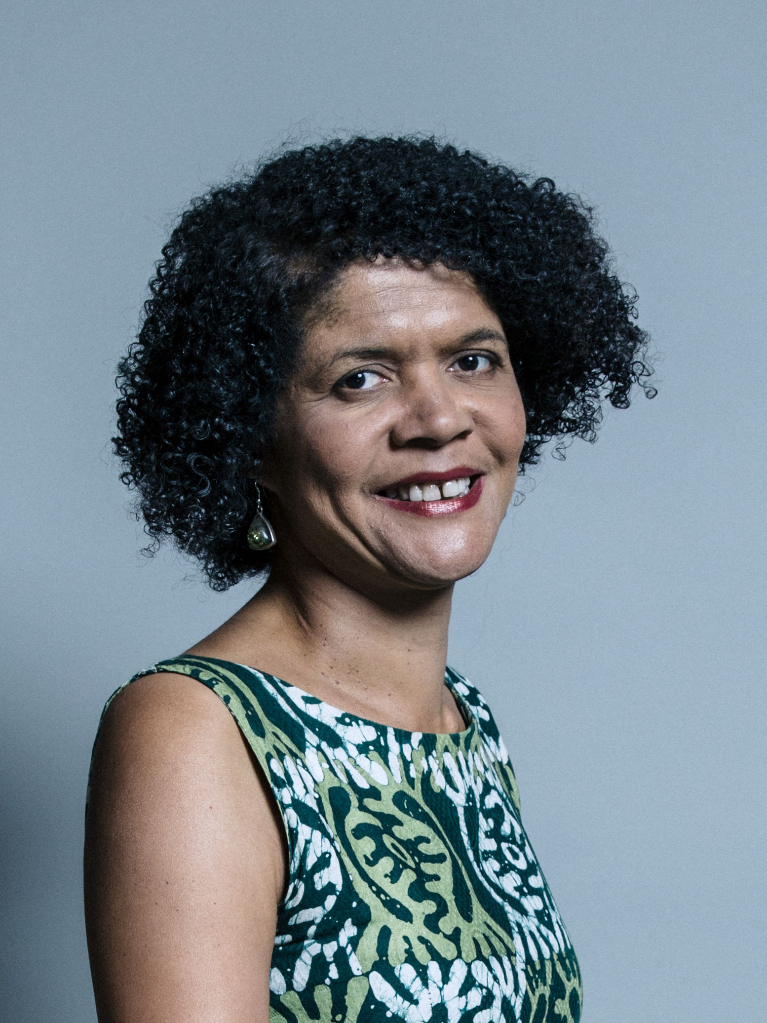 Official portrait of Chinyelu Susan "Chi" Onwurah